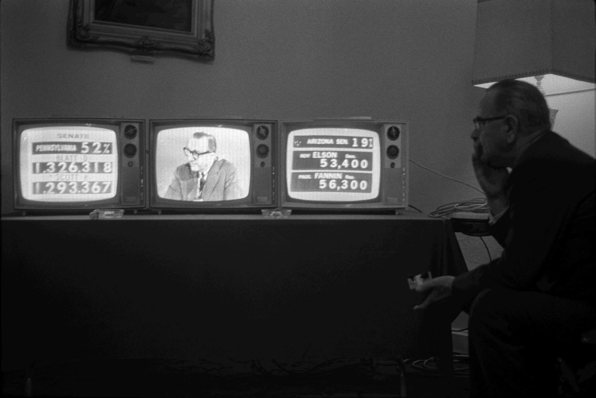 President Lyndon B. Johnson watches television sets as elections returns are reported